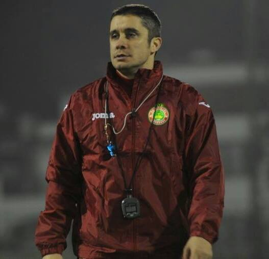 Nikola at football match in Antalia